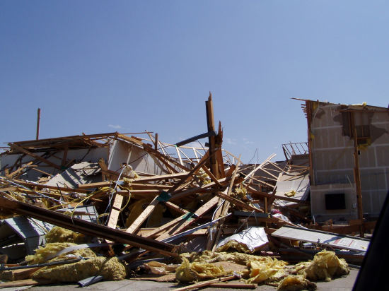 EF3 damage to a two-story office building in Windsor.